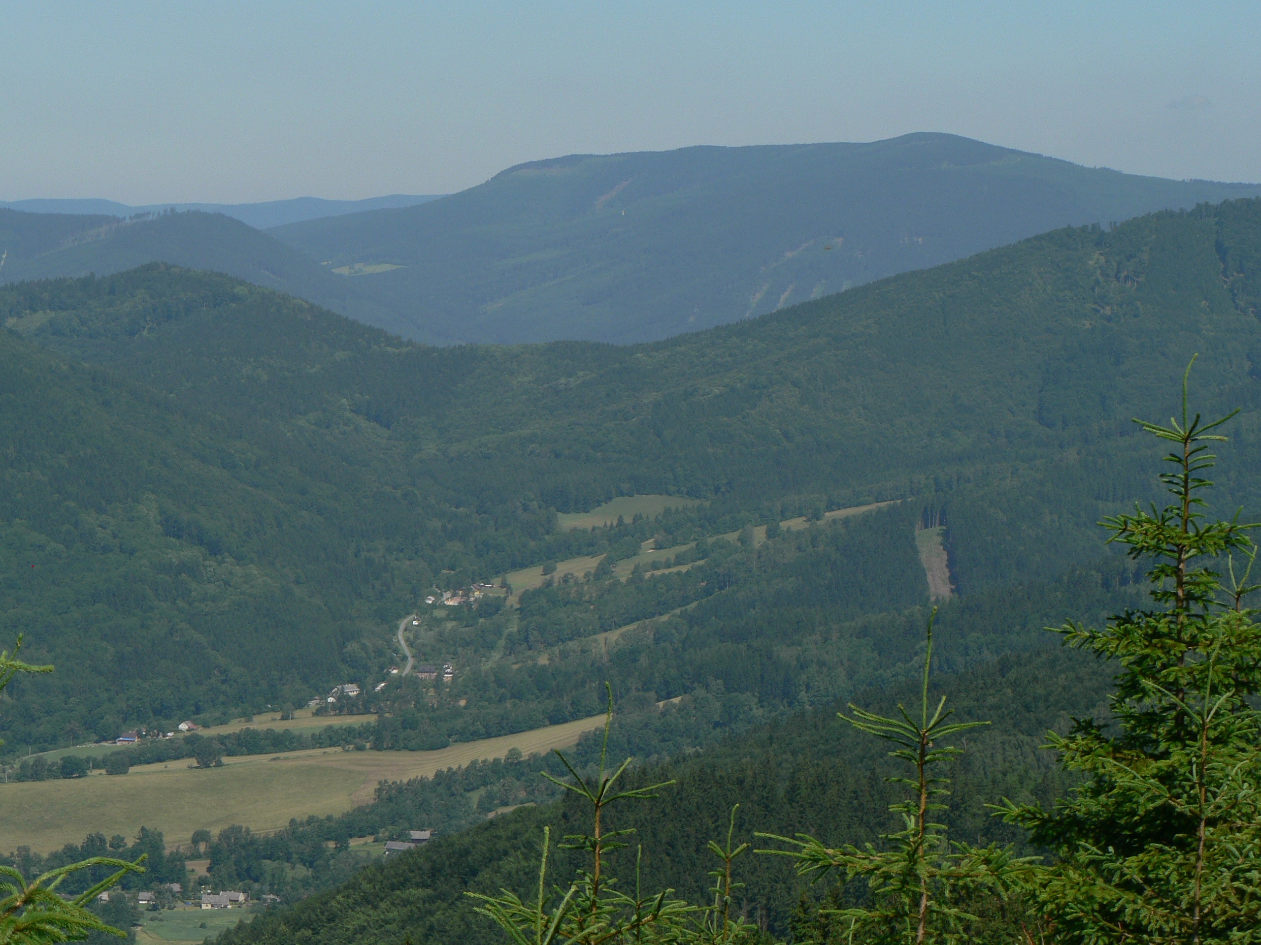 Cerna stran mountain in Hruby Jesenik Mts, Czech republic.